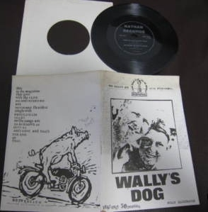 1984 Fanzine produced in St Albans U.K. By Alvin Smith.